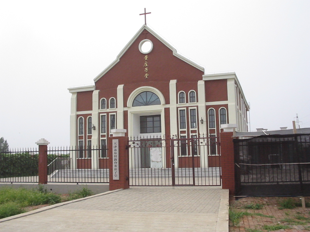 Newly completed chapel of Dongzhuangzi Christian Church.